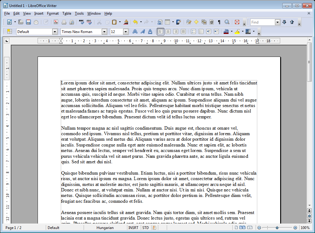 Screenshot of opensource office suite